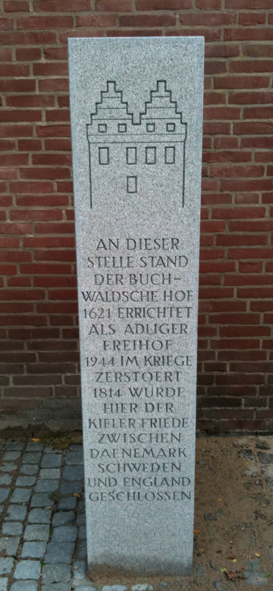 A stone for the 'Buchwaldsche Hof' in Kiel, Schleswig-Holstein, owner was in 1787 Caspar of Buchwaldt, residing in Seedorf.